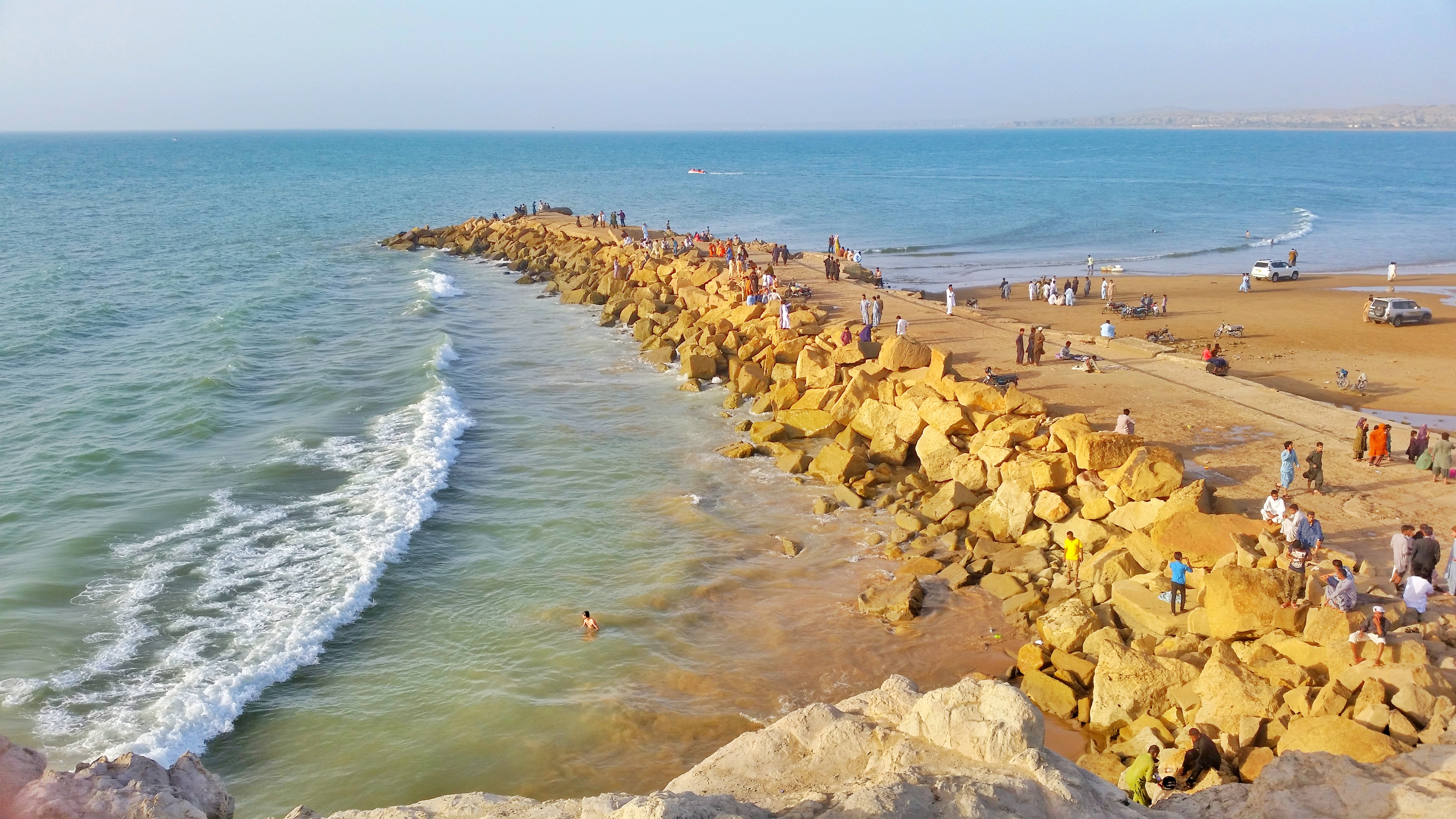 Gadani Beach View